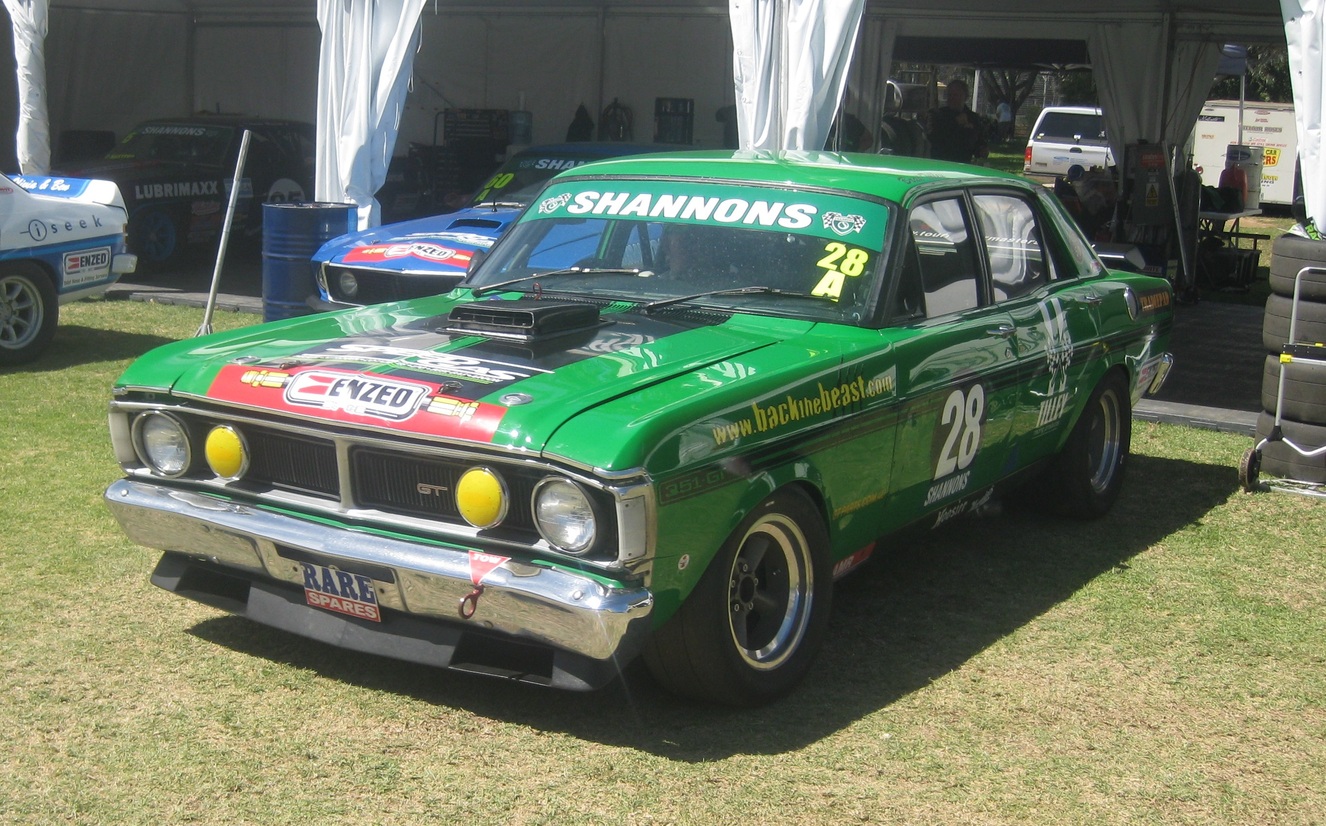 Ford XY Falcon GT of Brad Tilley. Round 1, 2014 Touring Car Masters, Adelaide Parklands Circuit.